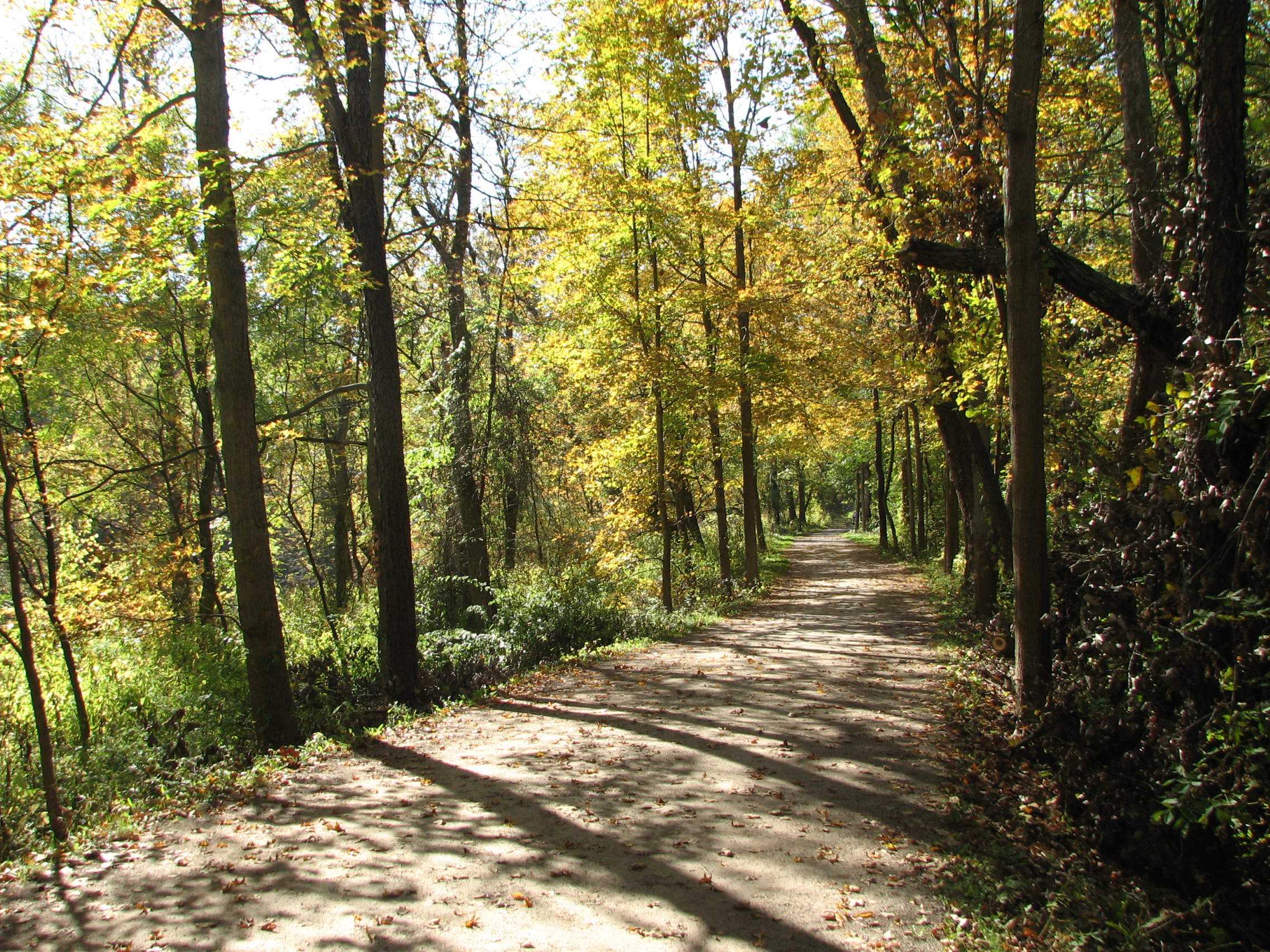 A photo taken of a portion of the Ohio and Erie Canal Towpath Trail during the month of October in the city of Peninsula, Ohio at Cuyahoga Valley National Park.